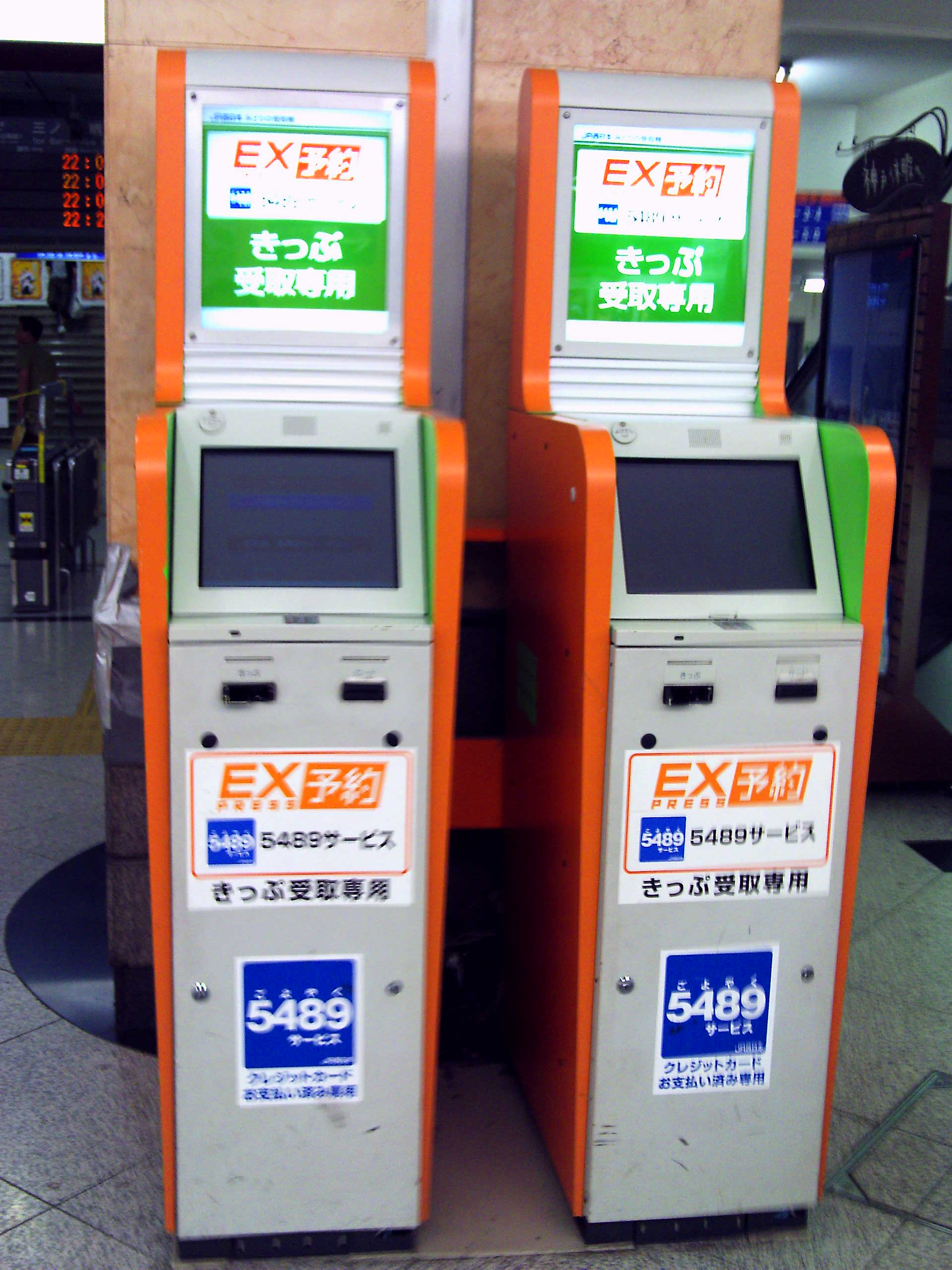 JR West EXpress Reservation ticketing machines at Osaka Station